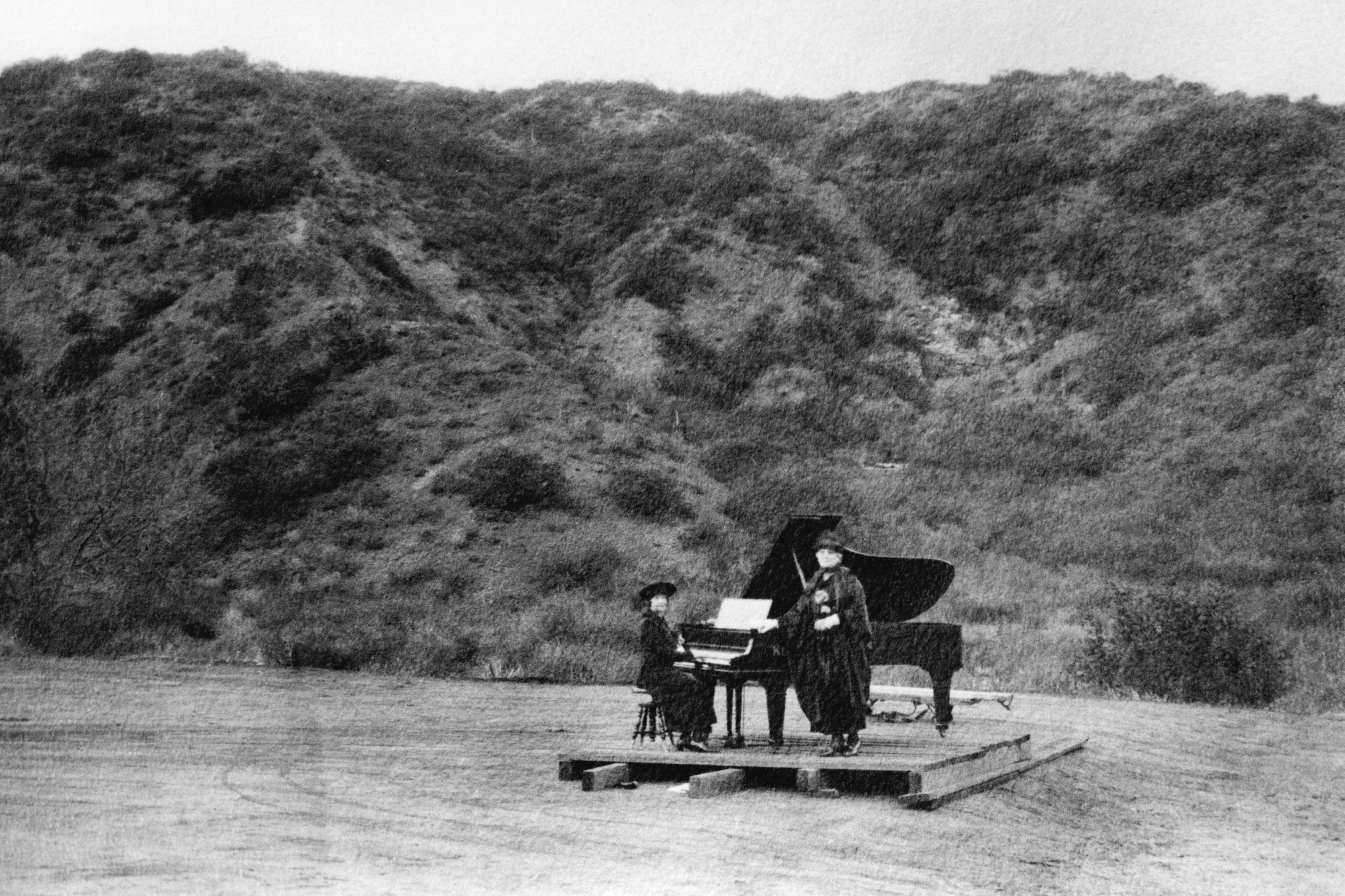 Two women performing on a barn door in the first known musical event at the Hollywood Bowl, ca.1920 Photograph of two women performing on a barn door in the first known musical event at the Hollywood Bowl, ca.1920. The makeshift stage is at center and consists of a large wooden door lying in the dirt, supporting a grand piano. One woman is seated at the piano while the other is standing nearby. The area around the stage is bare dirt, while a brush-covered hill can be seen in the background. Pictured here are Gertrude Ross and Anna Ruzena Sprotte.[1]